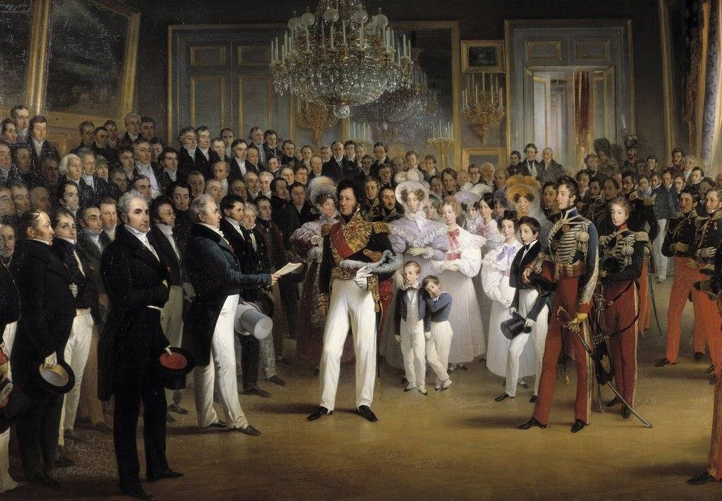 The members of the Chamber of Deputies are received at the Palais Royal by the duke of Orleans and his family, Paris 7th August 1830